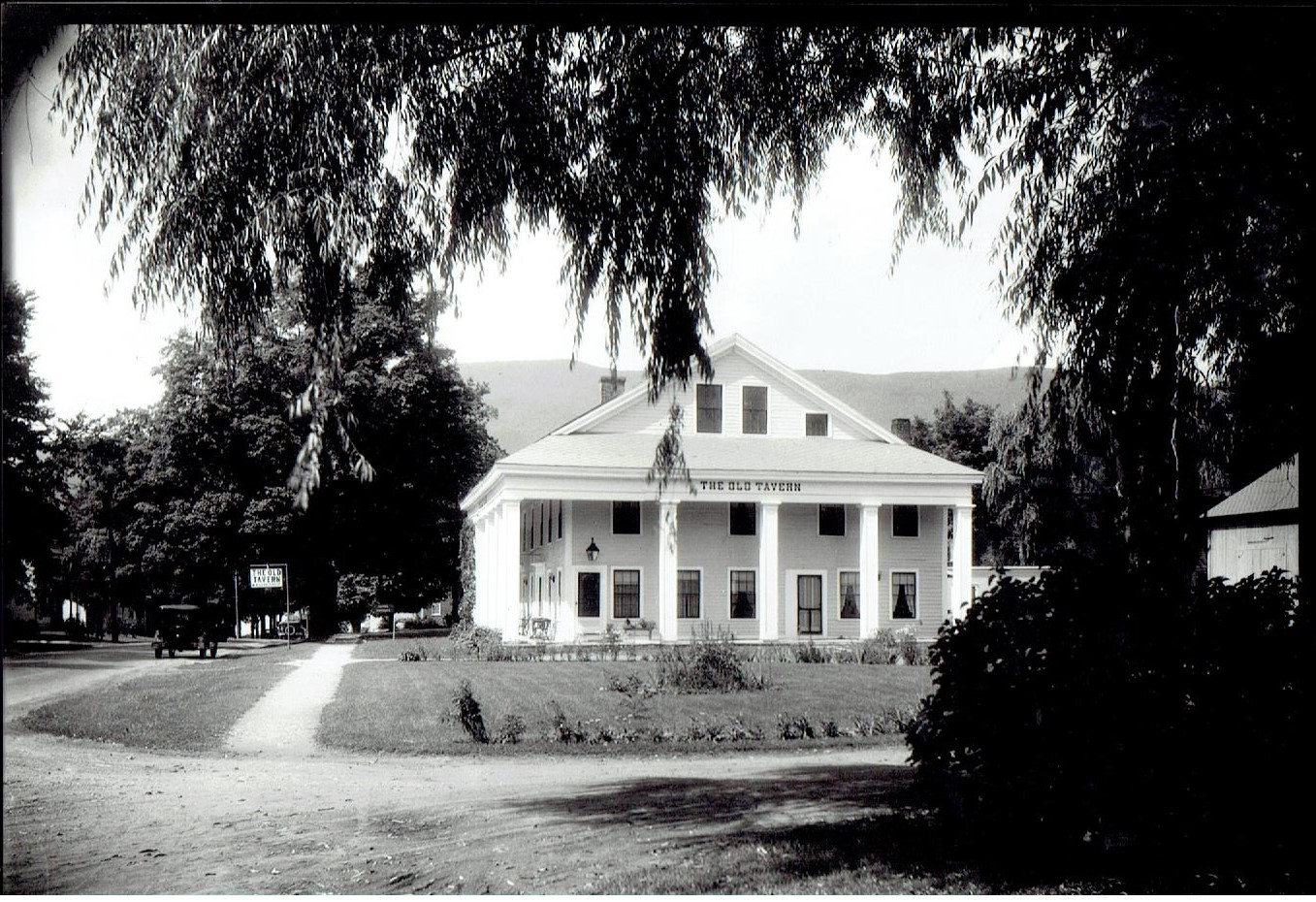 Circa 1920's at Ye Olde Tavern